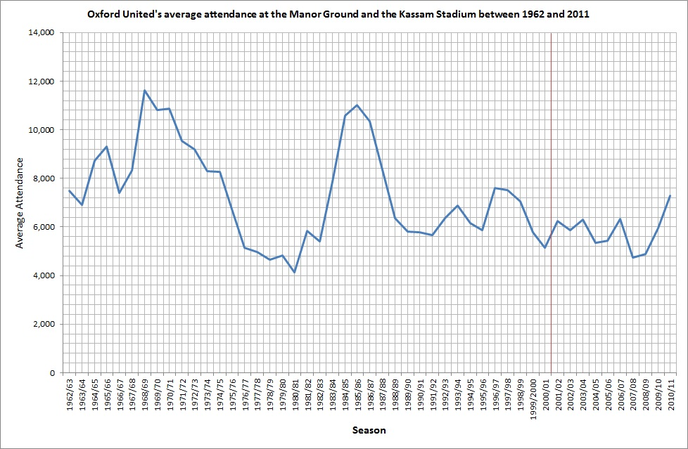 A graph of Oxford United F.C.'s average league attendances 1963 to 2007. The averages were obtained from